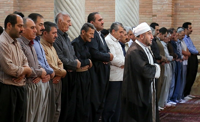 Eid al-Fitr prayer, Sanandaj